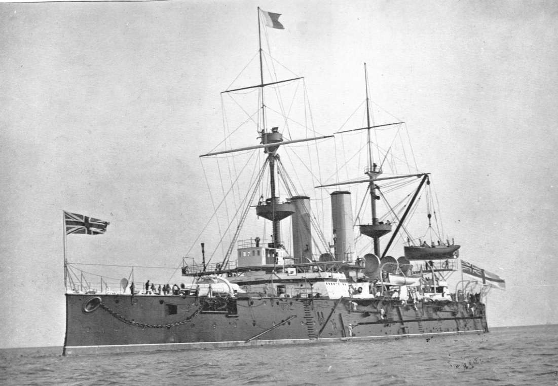 British battleship HMS Revenge (1892).